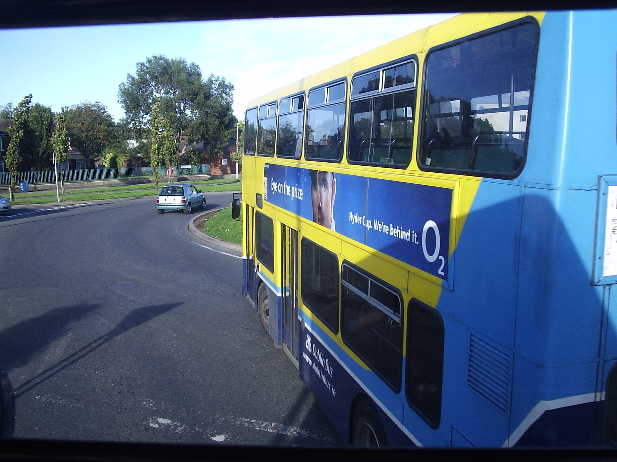 Date: 09/2006 Author:Sebb Description: Dublin bus on Artane round about.